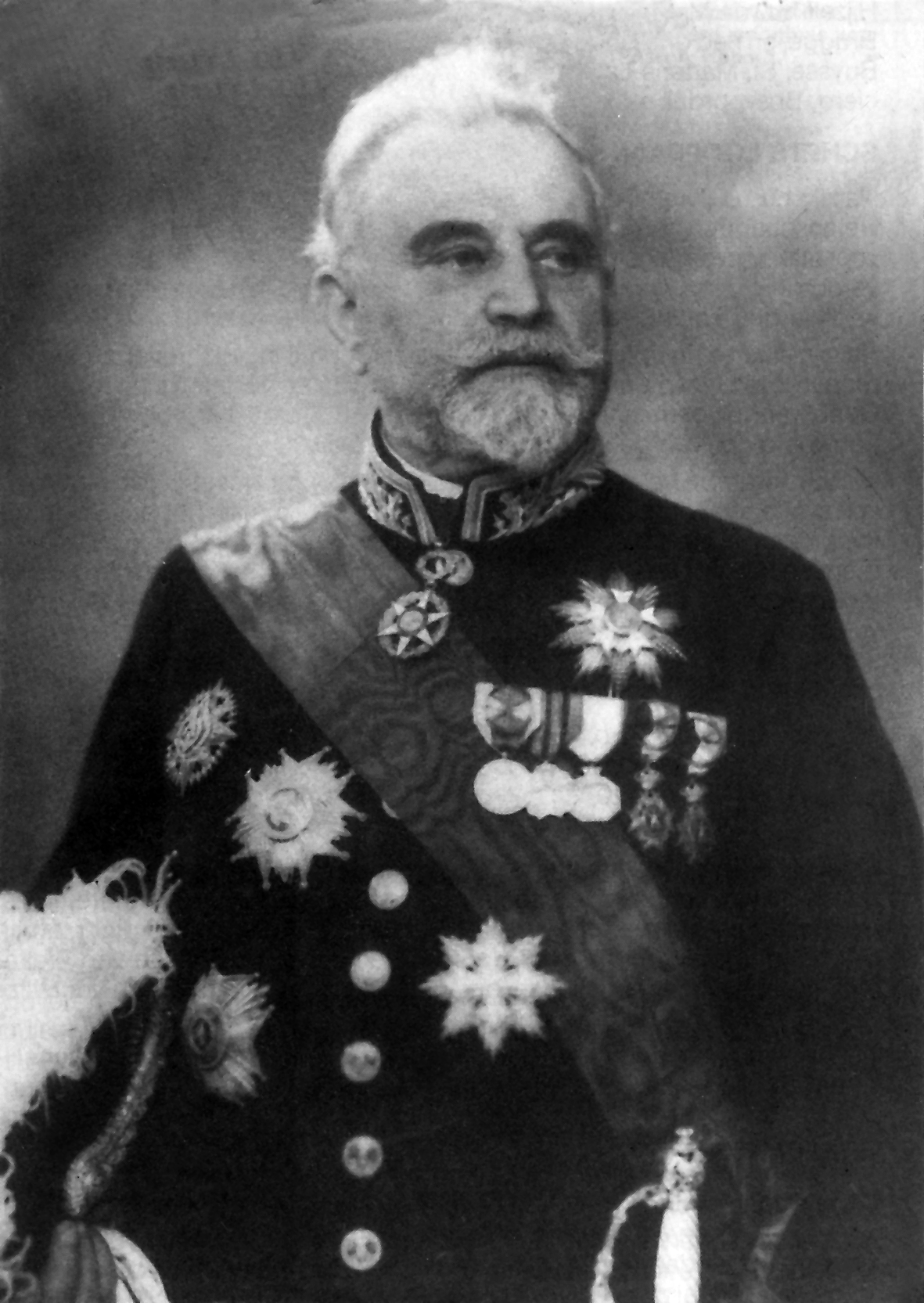 Portrait of Emile Tibbaut